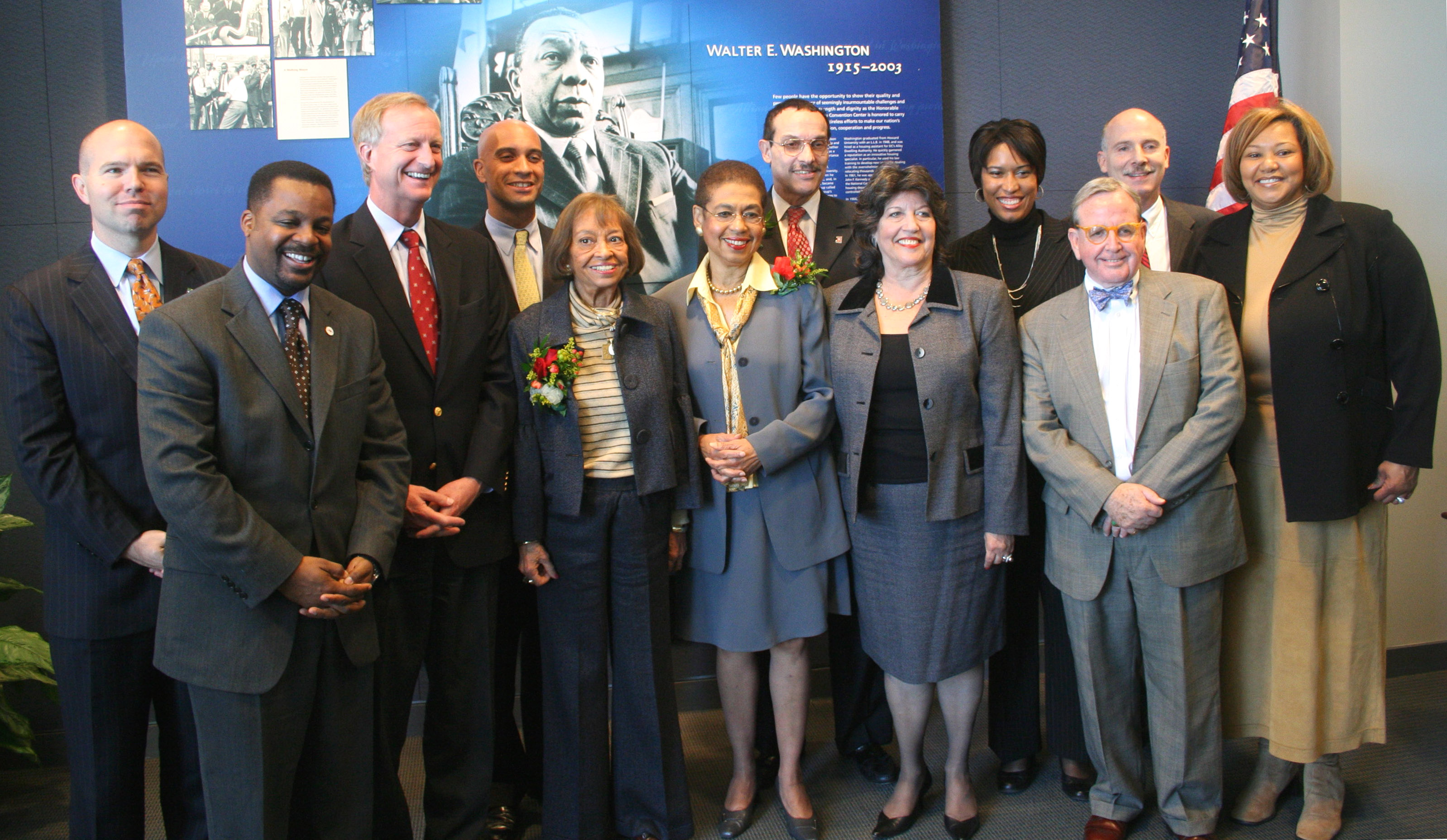 US Rep. Eleanor Holmes Norton, Mayor Adrian Fenty and most but not all members of the DC City Council (Marion Barry was absent) with Mary Washington